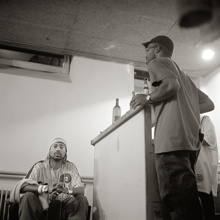 Madlip and J Rocc backstage in Cologne - Germany